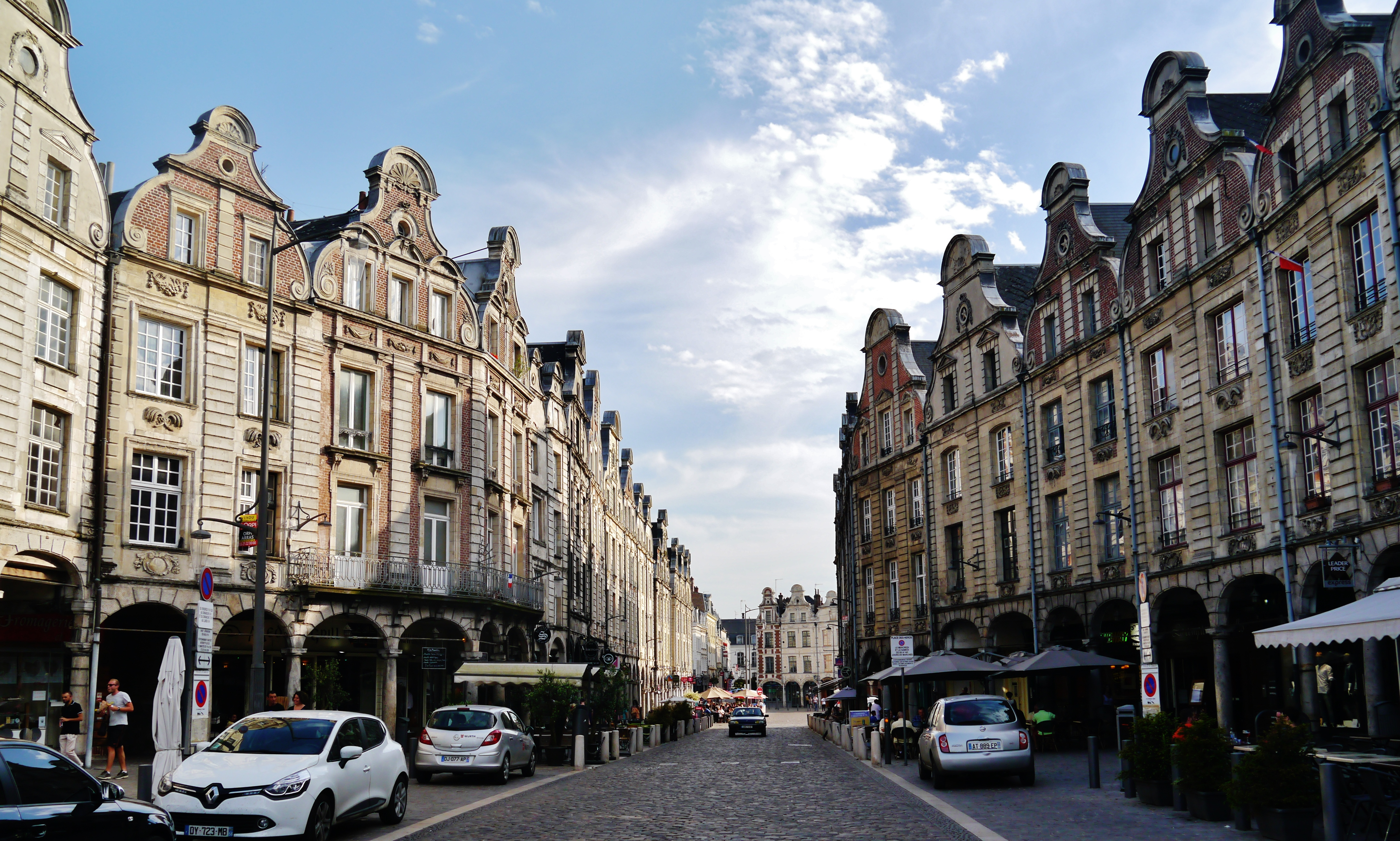 Rue de la Taillerie, Arras, Département of Pas-de-Calais, Region of Upper France (former Nord-Pas-de-Calais), France